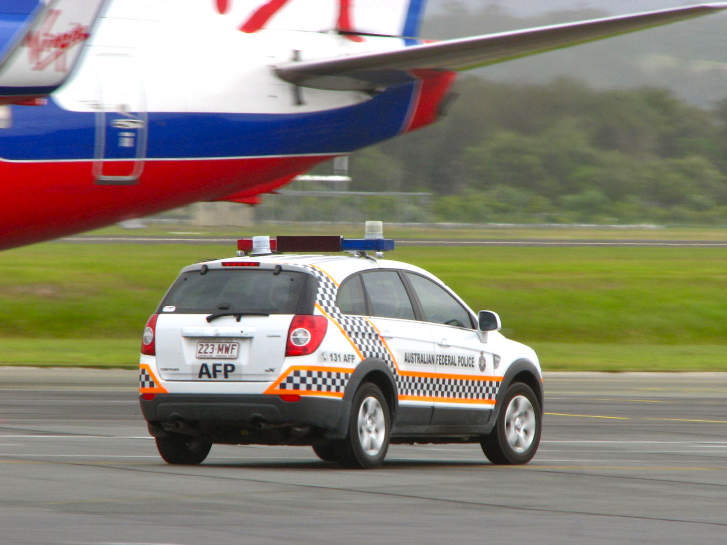 2006–2007 Holden Captiva (CG MY07) SX AWD wagon, Australian Federal Police. Photographed at Gold Coast Airport, Queensland, Australia.